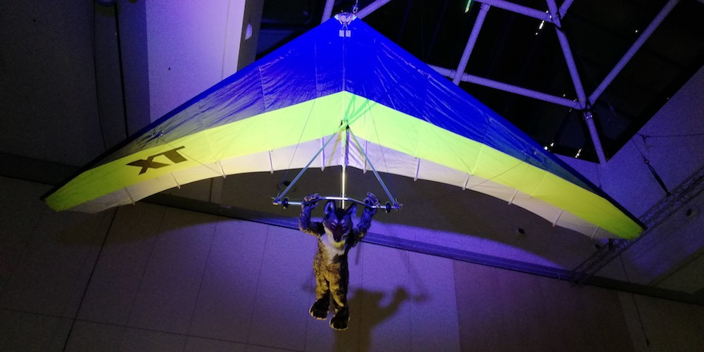 An example of decoration to illustrate the topic of a furry convetion (Eurofurence 2018 : aviators conquer the sky !)